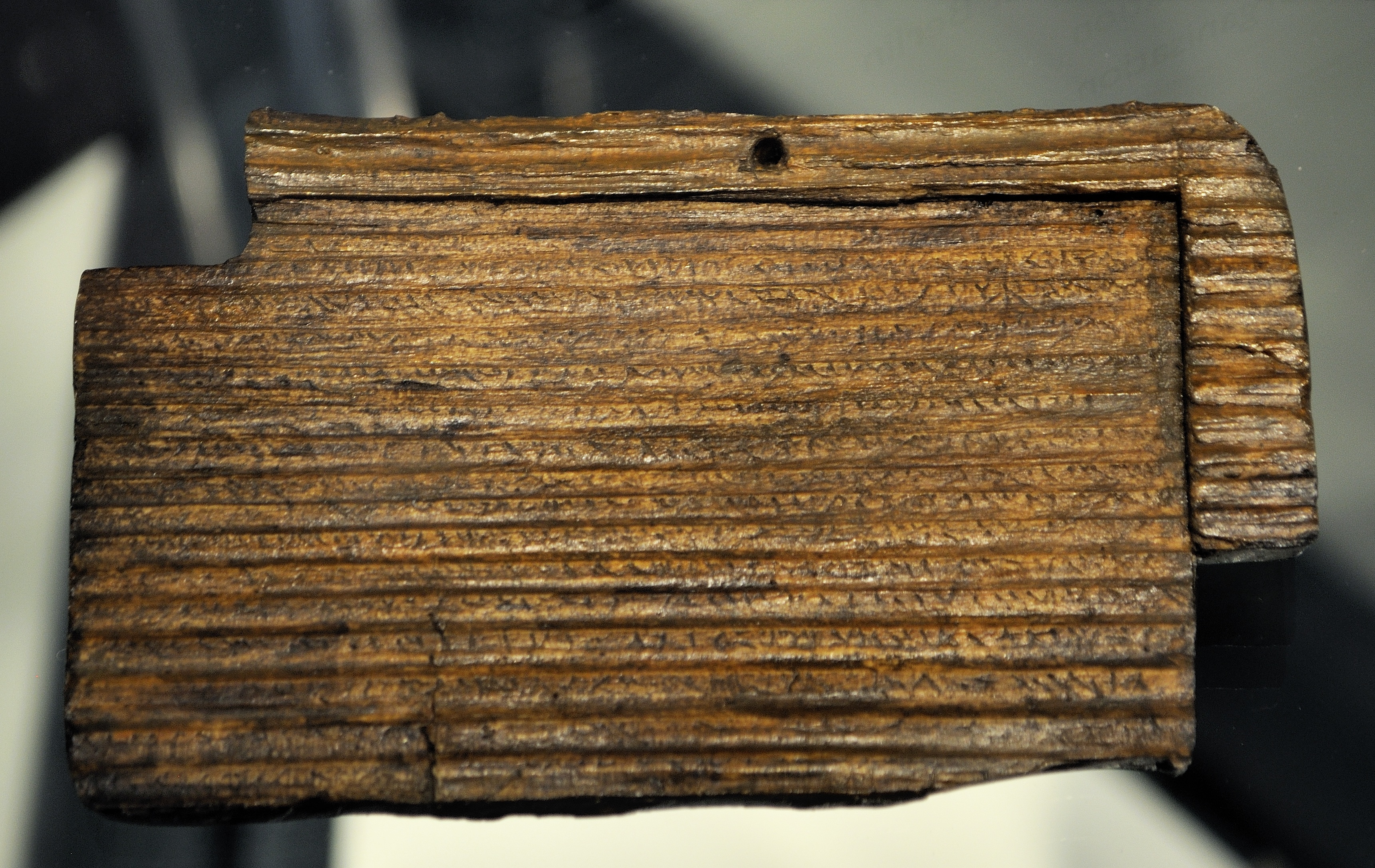 Picture taken in the Roman history museum in Osterburken.